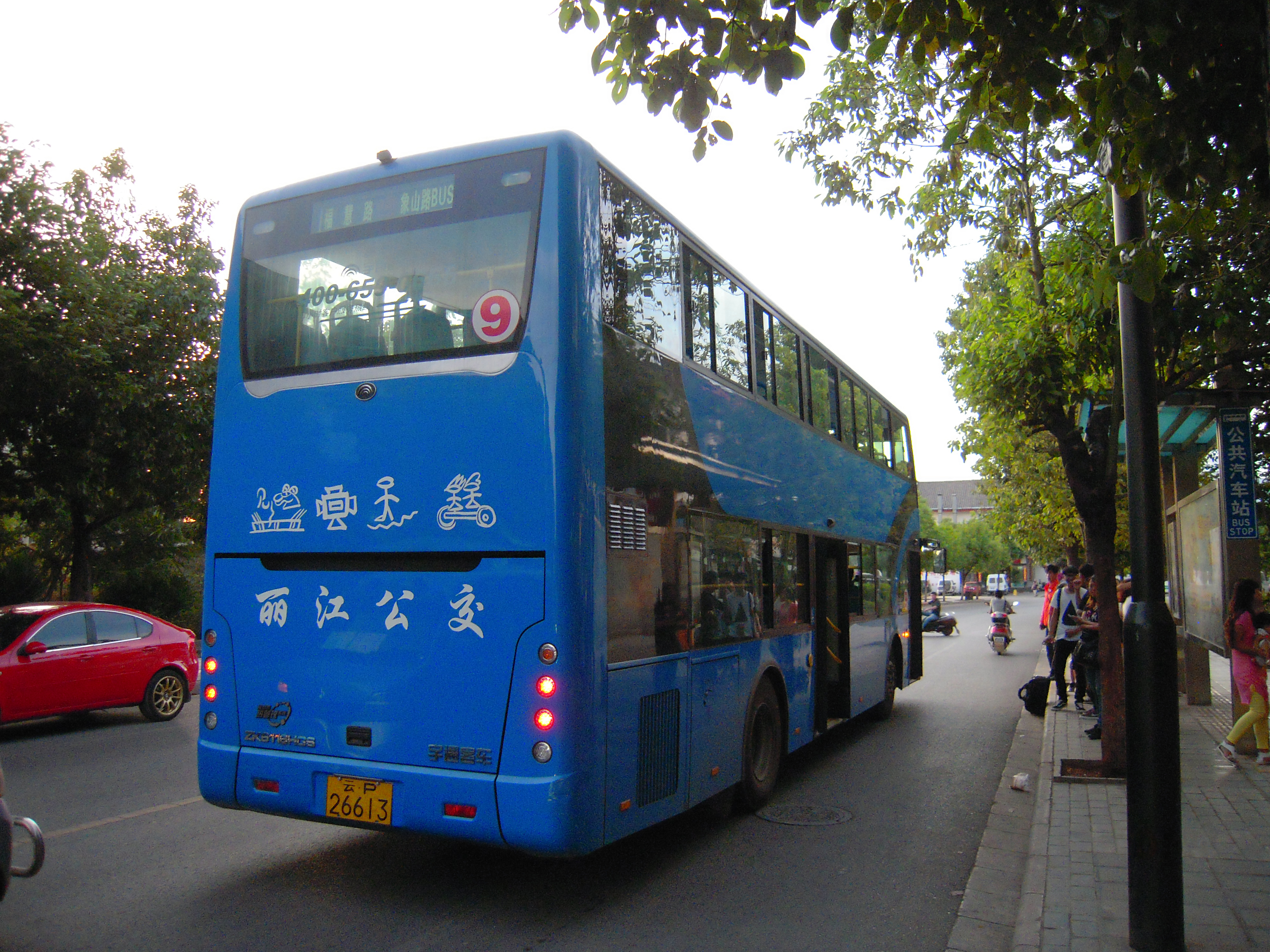 Lijiang Bus with Chinese and Dongba characters